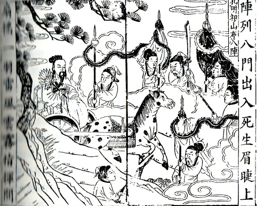 A Qing Dynasty Illustration of Sima Yi and Kongming dueling.